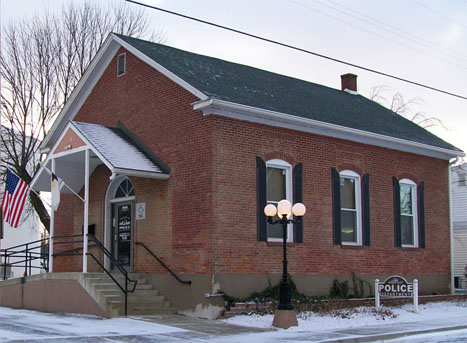 Millstadt Commercial Club, Police Headquarters